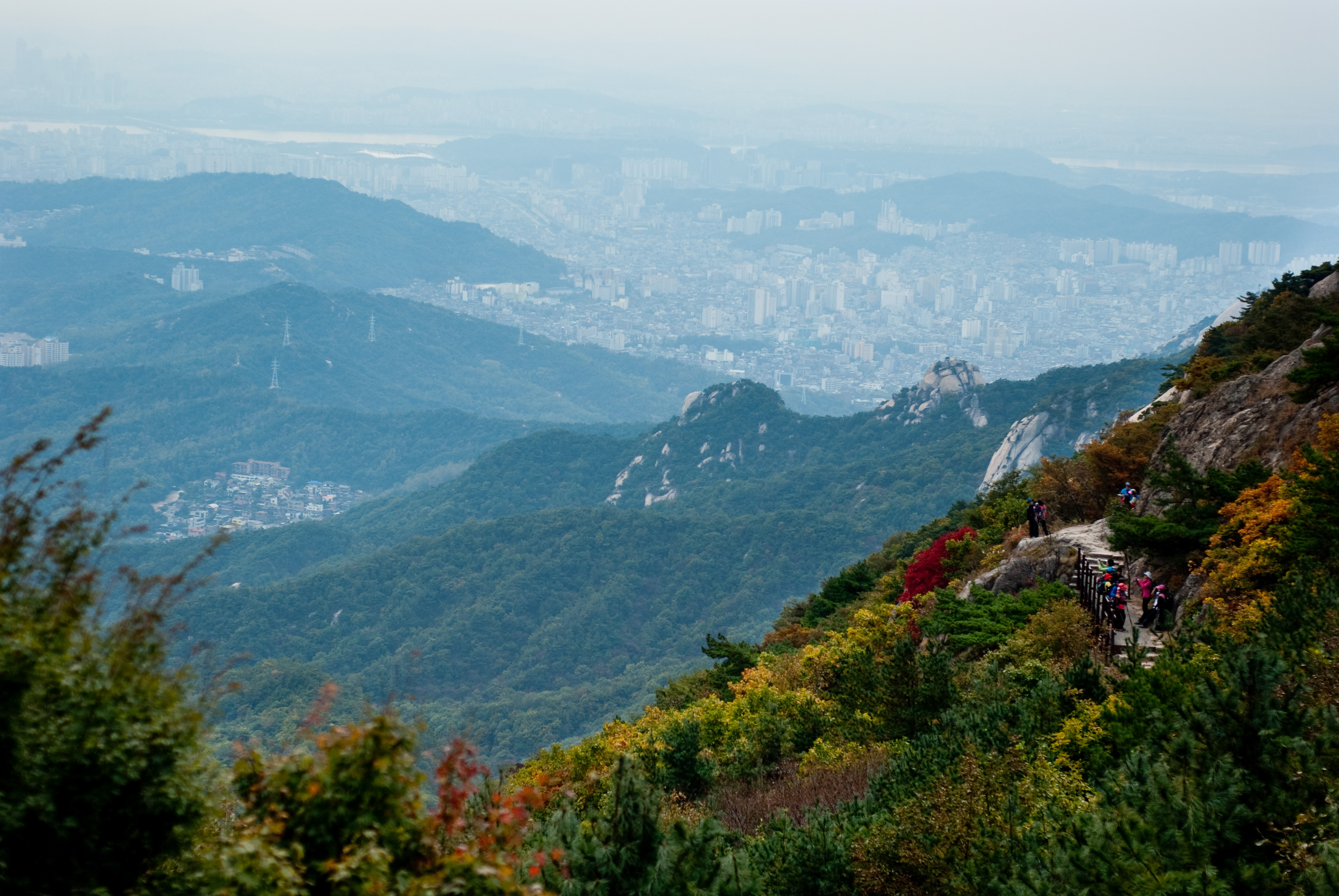 Seoul from Bukhansan